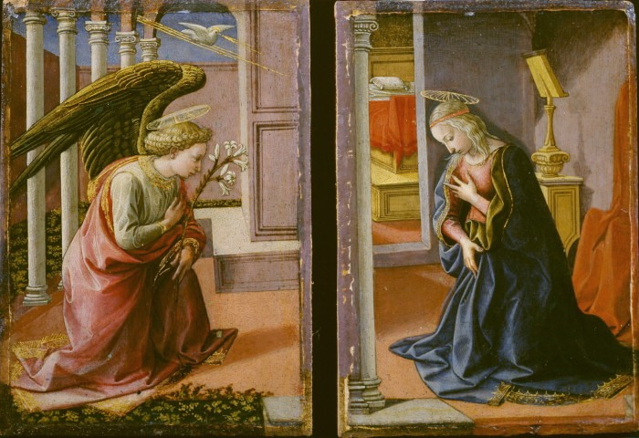 Pesellino, The Annunciation, 1451-53, Curtauld Istitute of Art